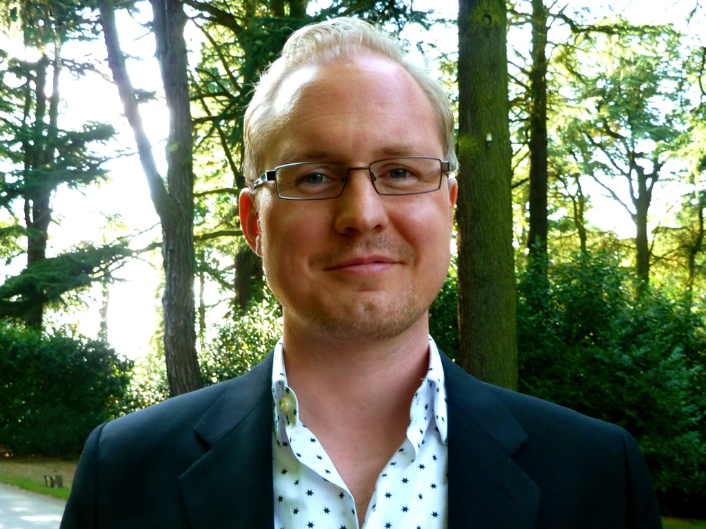 Portrait of Mark Silk.